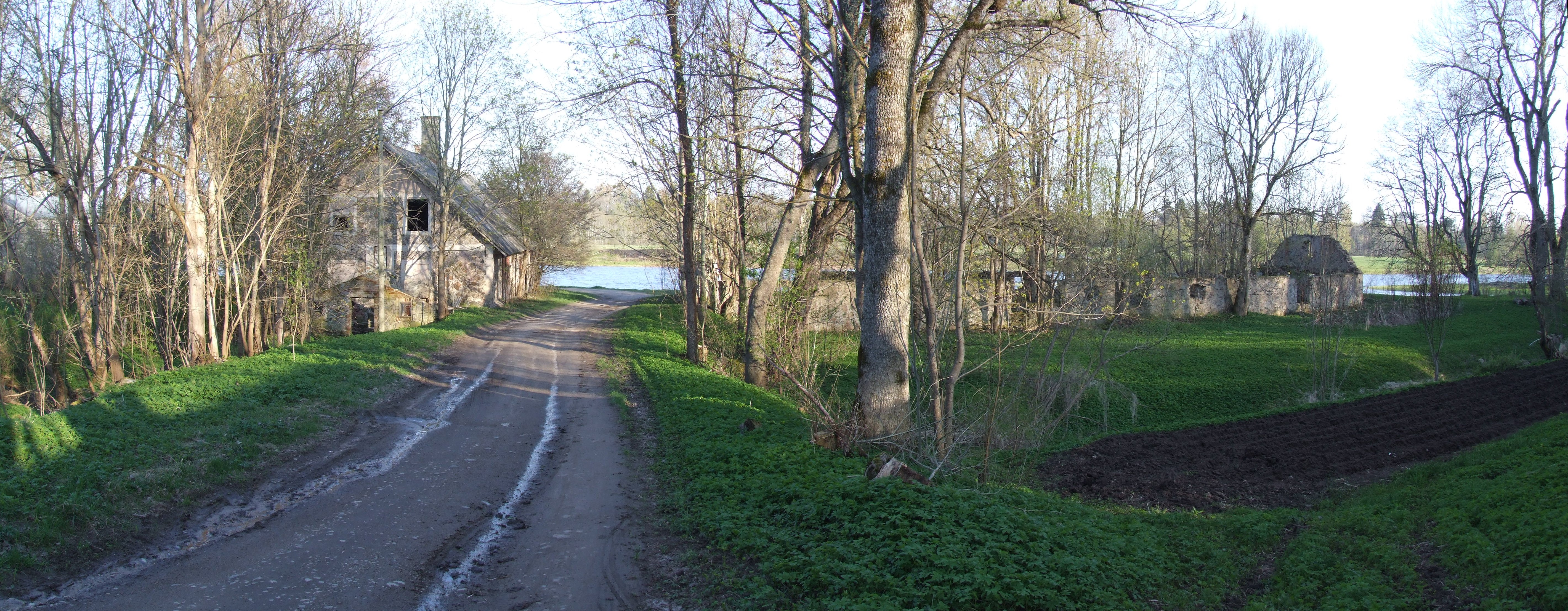 Alt-Salis manor